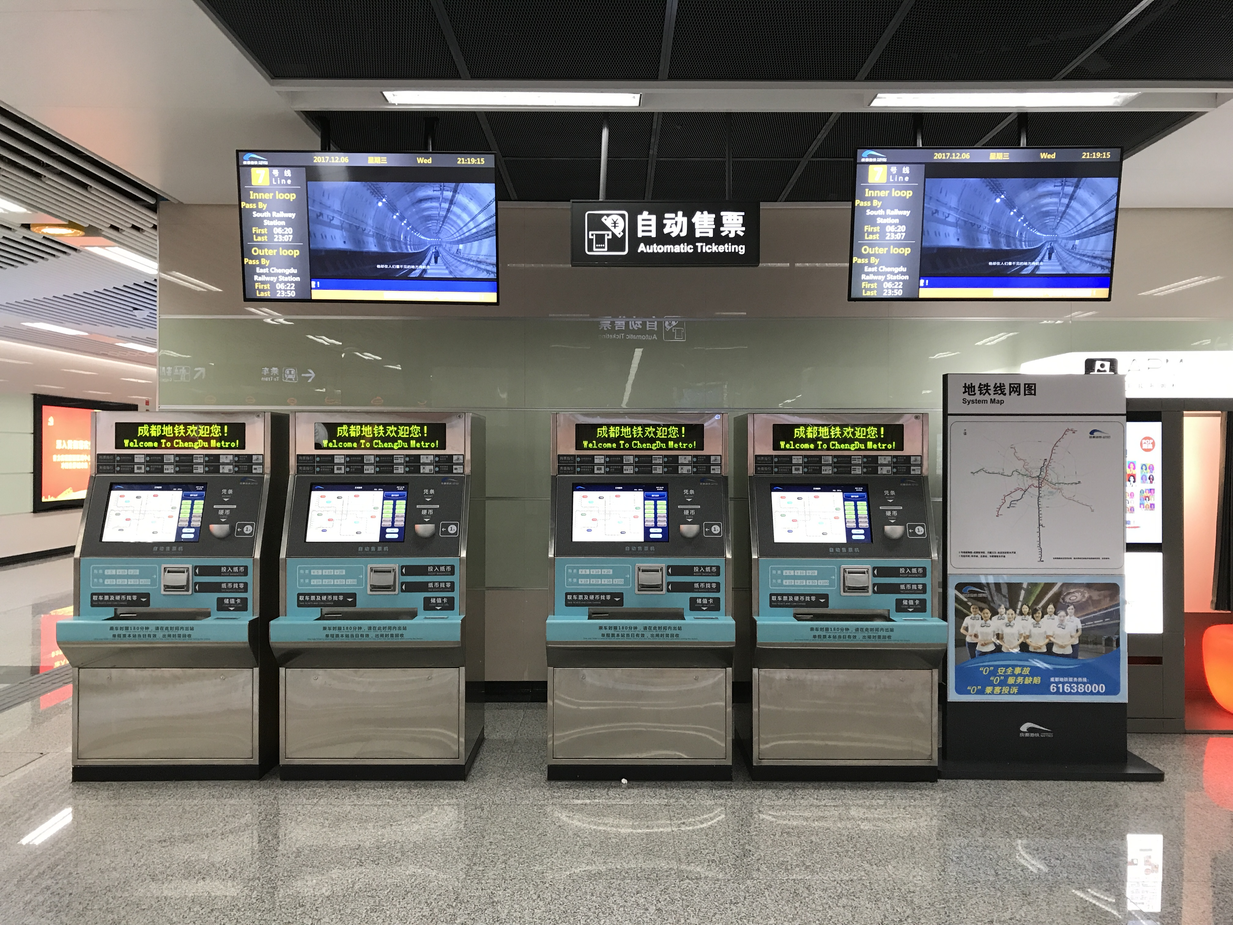 TVM in Shizishan Station， Line 7, Chengdu Metro